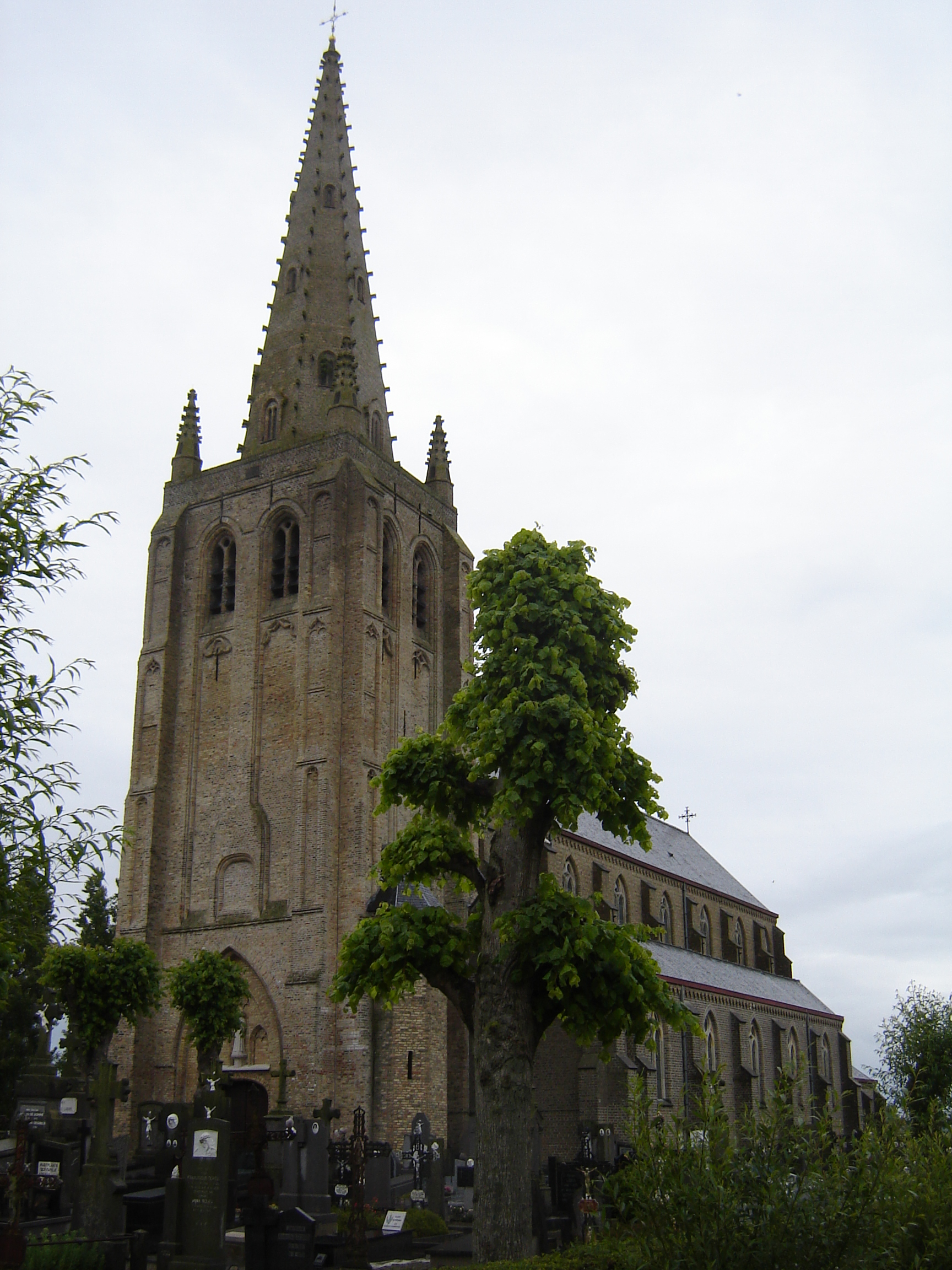 Sint-Bertinuskerk in Bulskamp. Church of Saint Bertin in Bulskamp, Veurne, Belgium